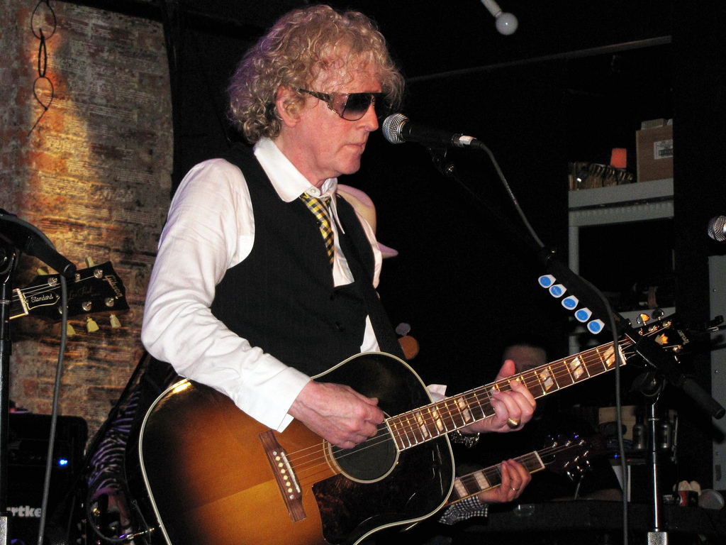 Ian Hunter at the City Winery, New York in April 2010.